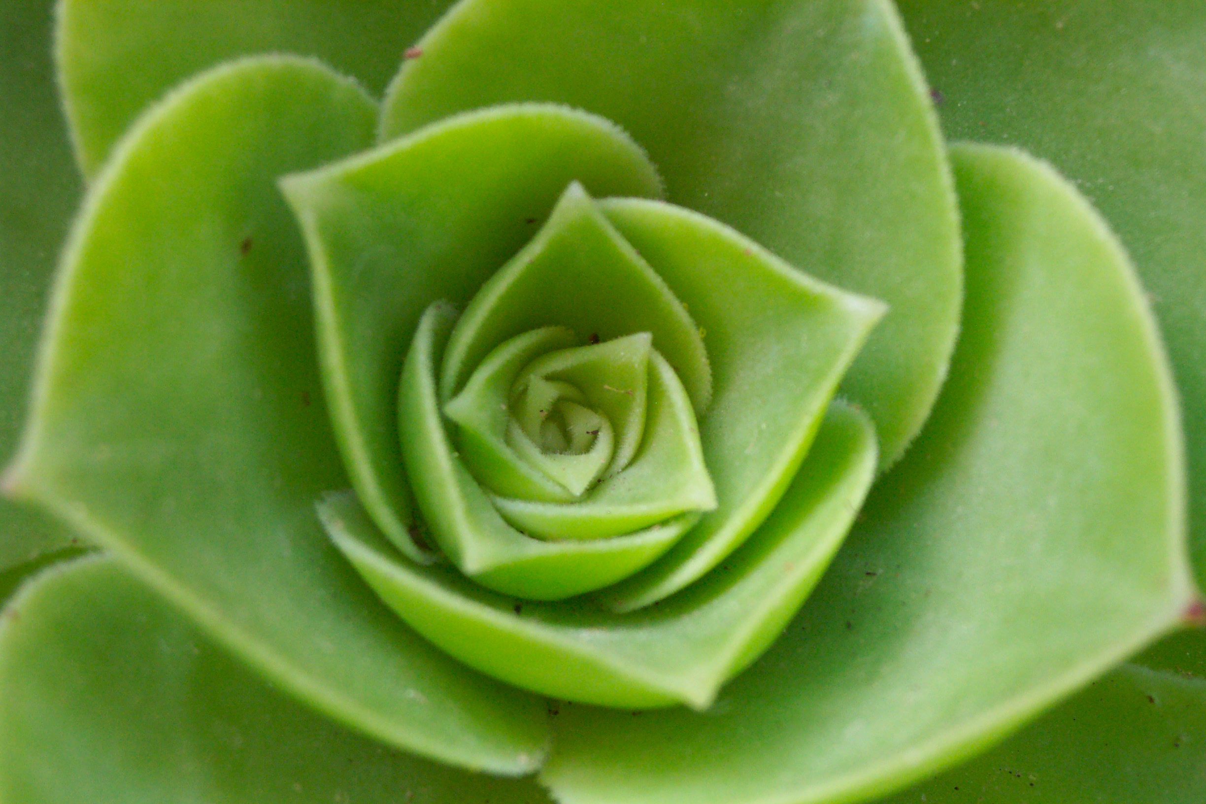 Flora of Israel